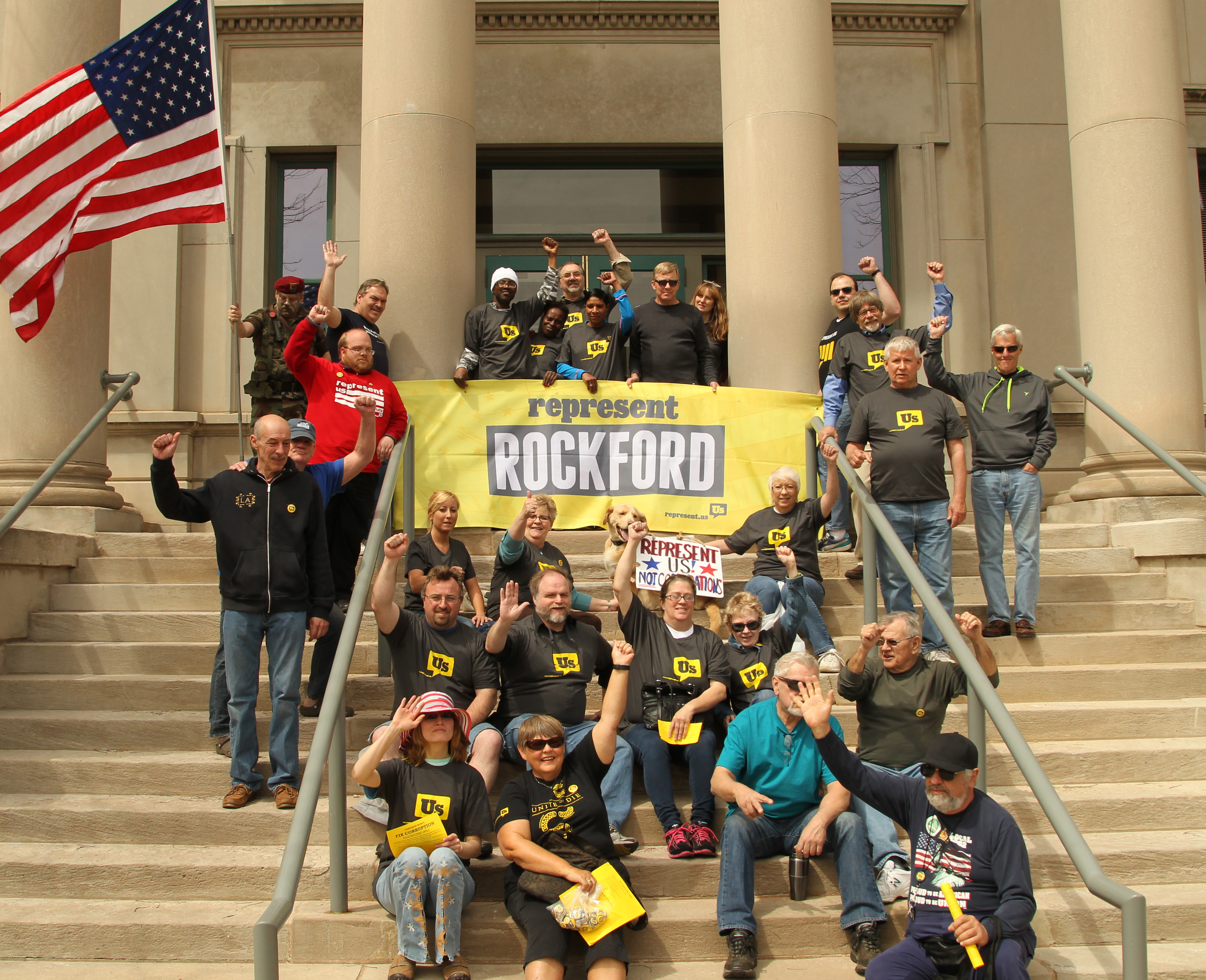 Represent.Us volunteers in Rockford, IL